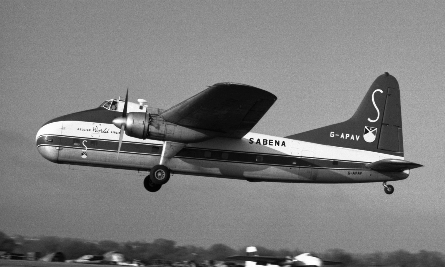 The 212th and final B.170, it first flew under Bristol's Class B marks G-18-210 and was leased to Air Charter from Apr 1957 as G-APAV Viceroy. The company, by then operating the cross-Channel car-ferry service as Channel Air Bridge, bought it outright in 1961. The Southend-Ostend car ferry service was formally jointly-operated with SABENA, but the Belgian airline never contributed any aircraft. Instead, at different times a CAB/BUAF/BAF Superfreighter was painted in SABENA colours and used on the service. G-APAV flew as such from June 1962 to June 1966 with one short break and is seen here departing Southend on 25 Nov 1964, soon after its second repaint. Photo: Richard John Goring (Transportraits)